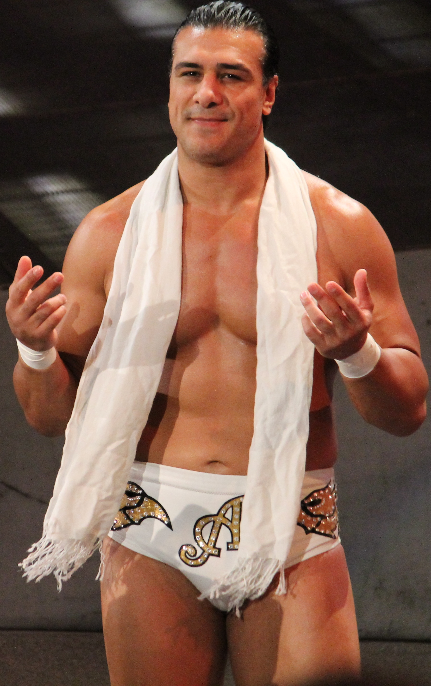 Alberto Del Rio on an episode of Monday Night RAW in 2012. Cropped from the original to elimate dead space on either side